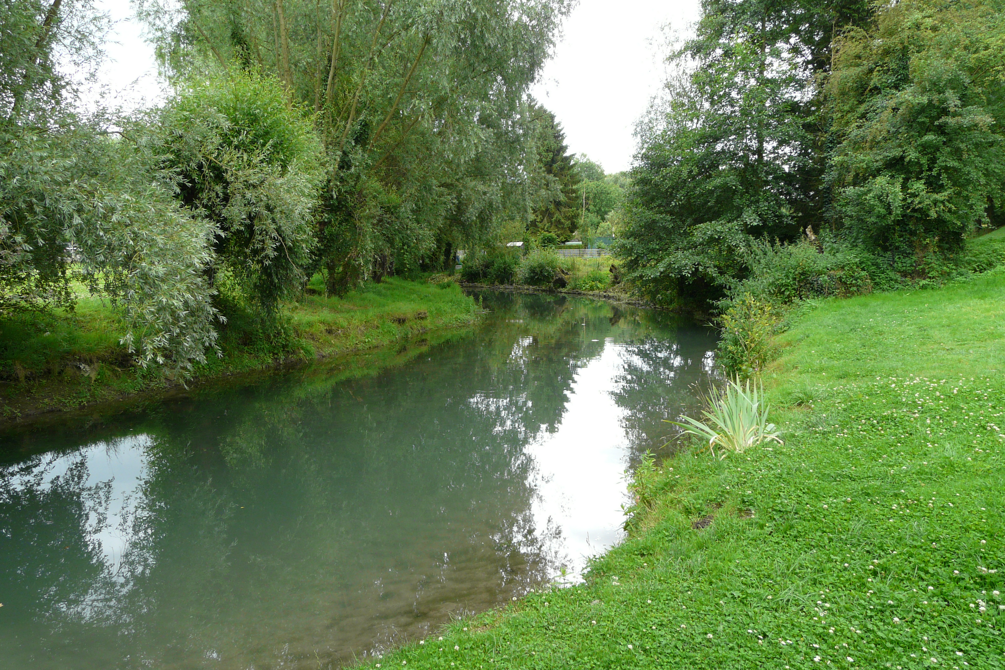 River Selle (a tributary of Schelde) in Le Cateau-Cambrésis